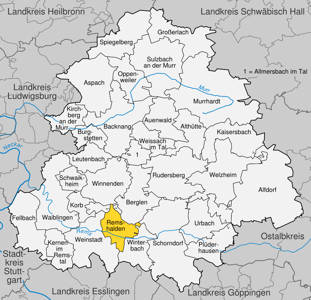 position of Remshalden within the Rems-Murr-Kreis, Baden-Württemberg, Germany